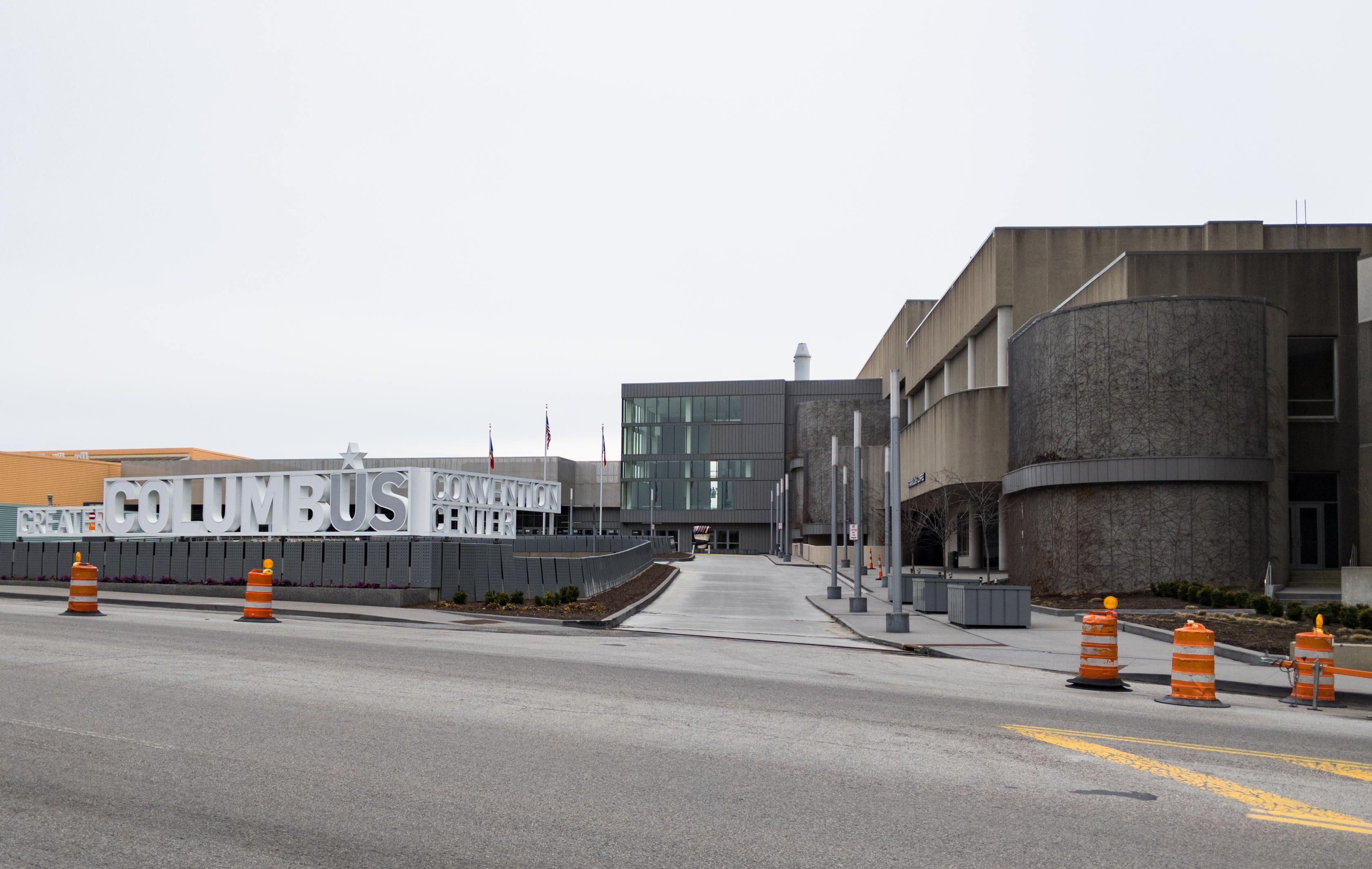 Columbus convention center, taken in downtown Columbus, Ohio.